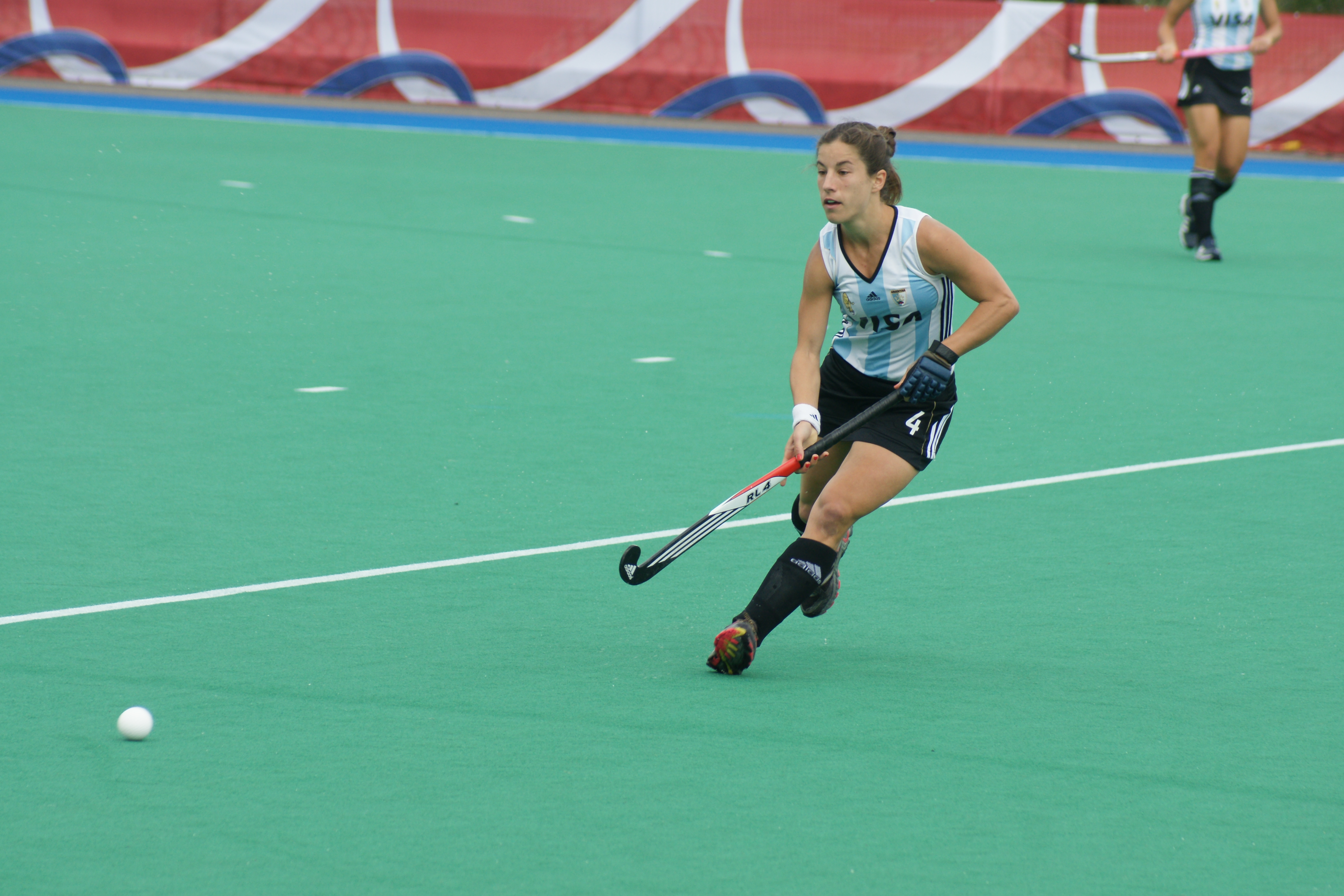 Argentina v Netherlands Women's Challenge Trophy 2010 Final